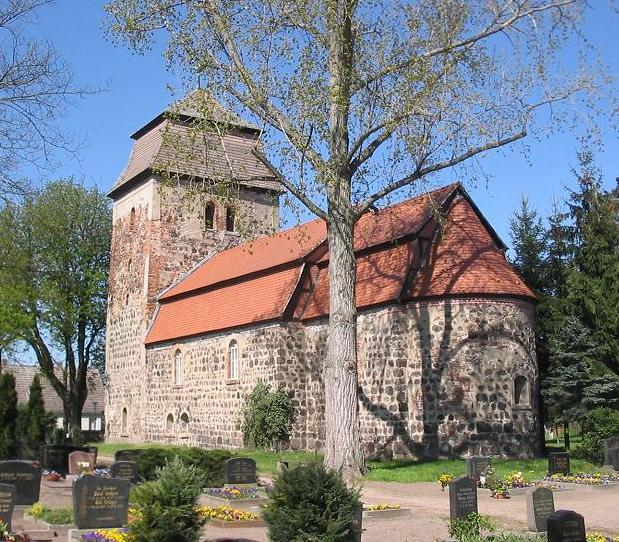 Stonechurch Deetz, oldest parts from 12th century. Deetz is a municipality in the Nature park Fläming in the district Anhalt-Zerbst, state Saxony-Anhalt, Germany.